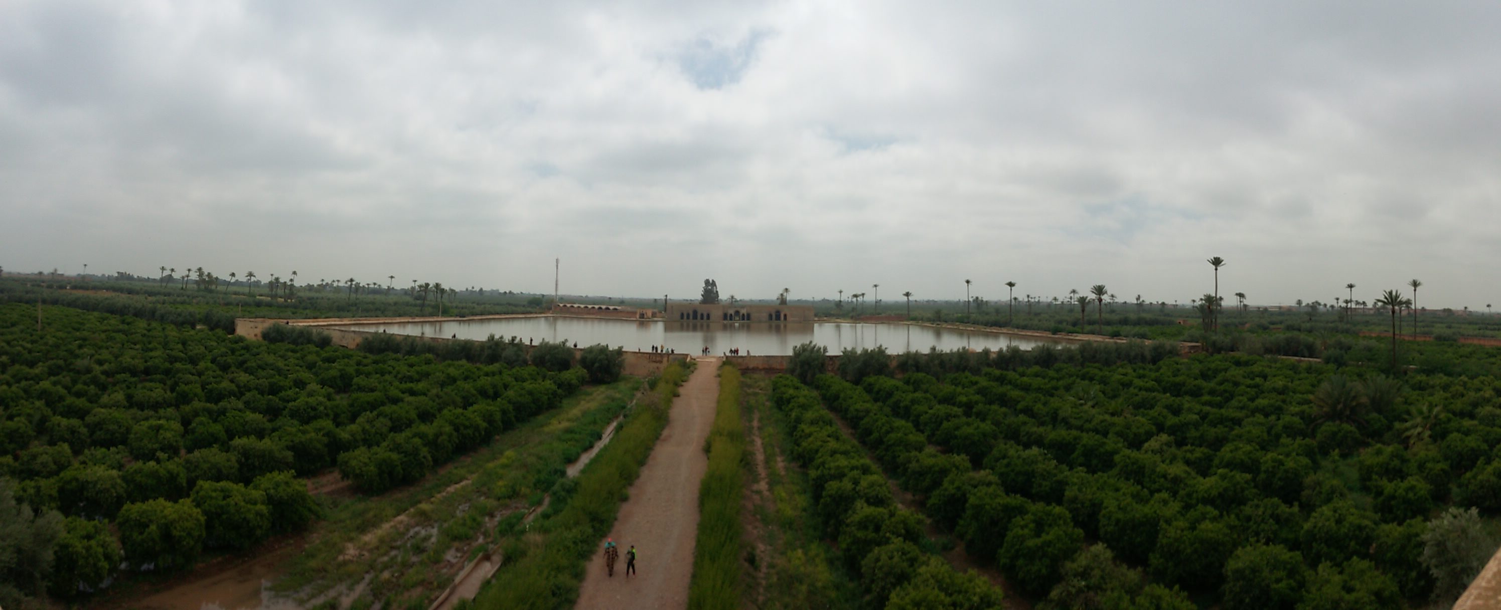 Agdal Gardens, Marrakech